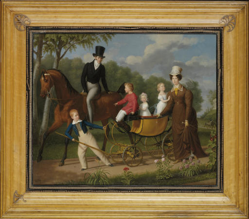 Portrait of a gentleman on horseback, said to be the Russian architect Voronikhin in the grounds of Pavlosk Palace, with his wife and children